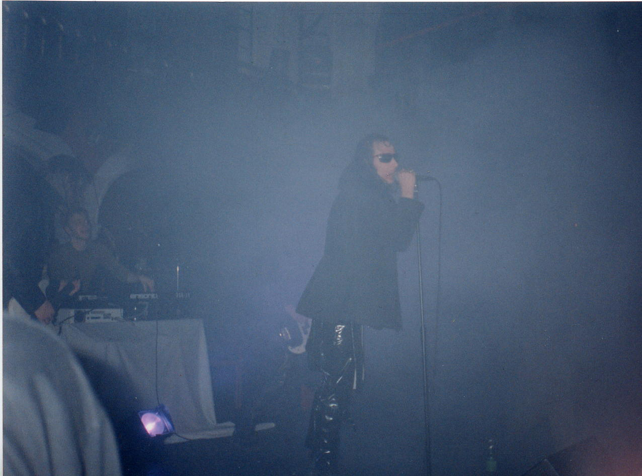 Meat Machine onstage, London 1994